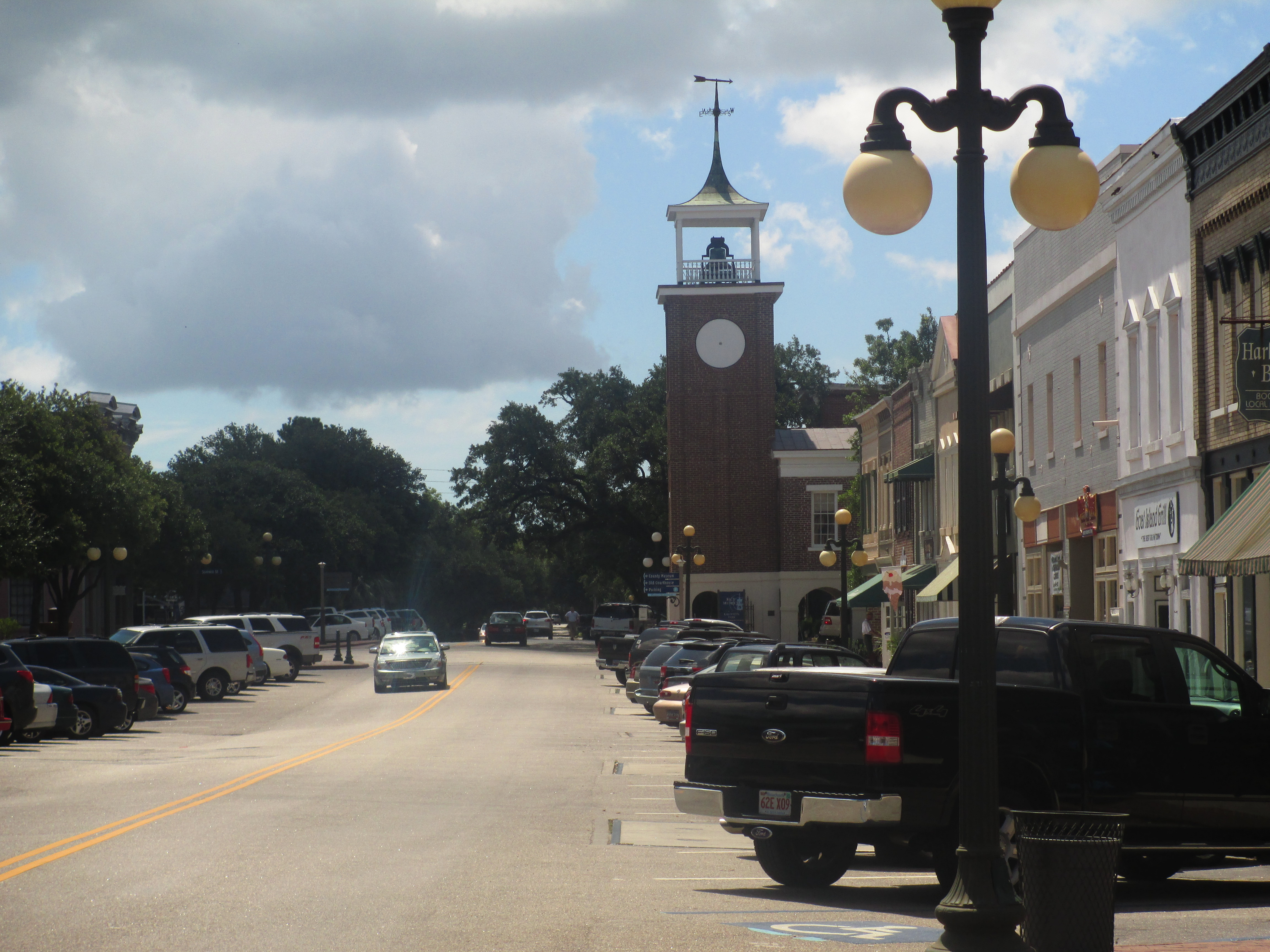 I took photo of downtown Georgetown, SC, with Canon camera.